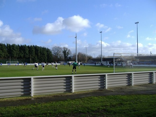 Yate Town FC's ground at Lodge Road, Yate, Gloucestershire. The players of Yate Town and Halesowen warm up before a Southern League match. (Final score 2-2)